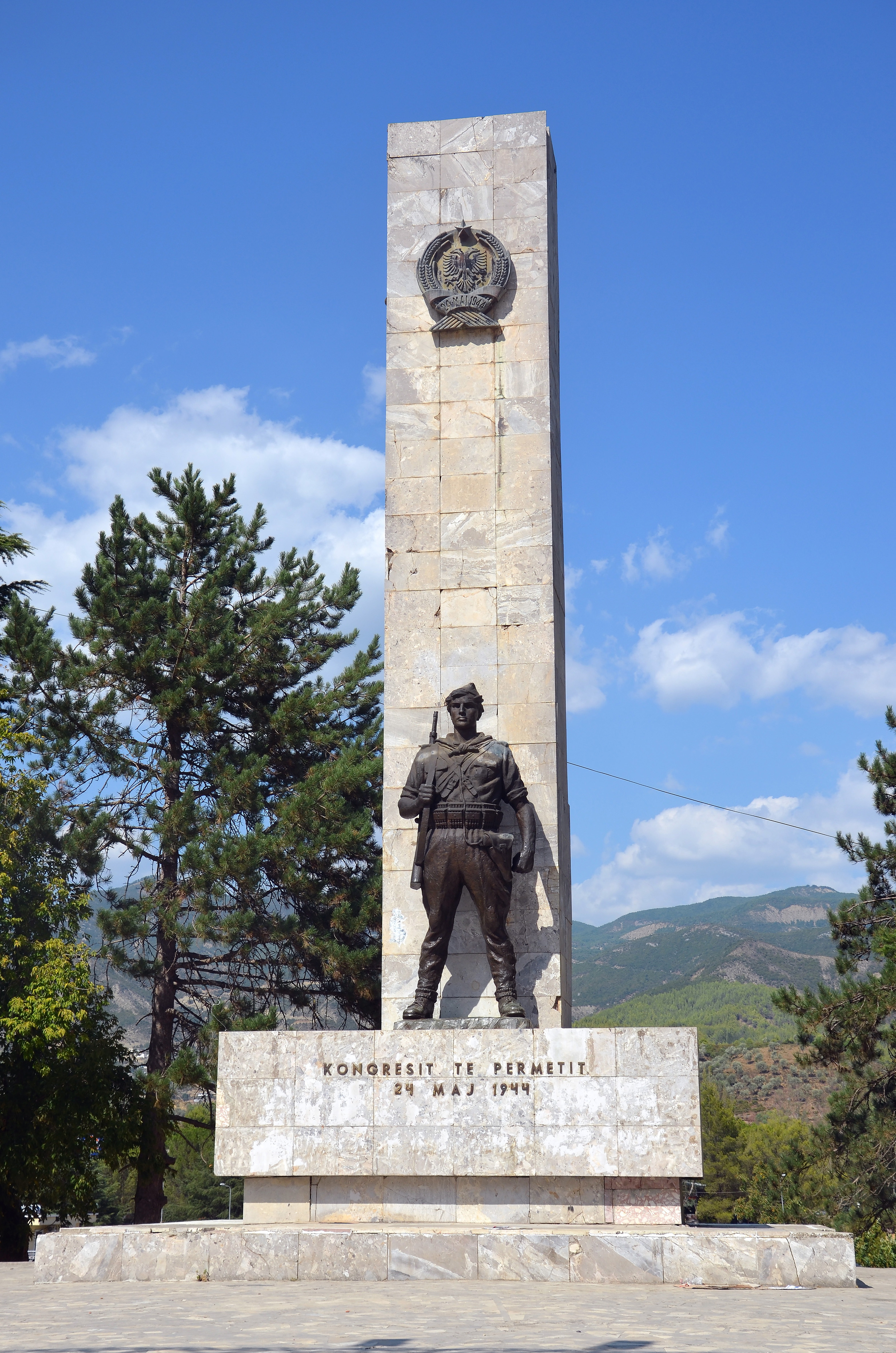 The monument of the 1944 Congress of Përmet